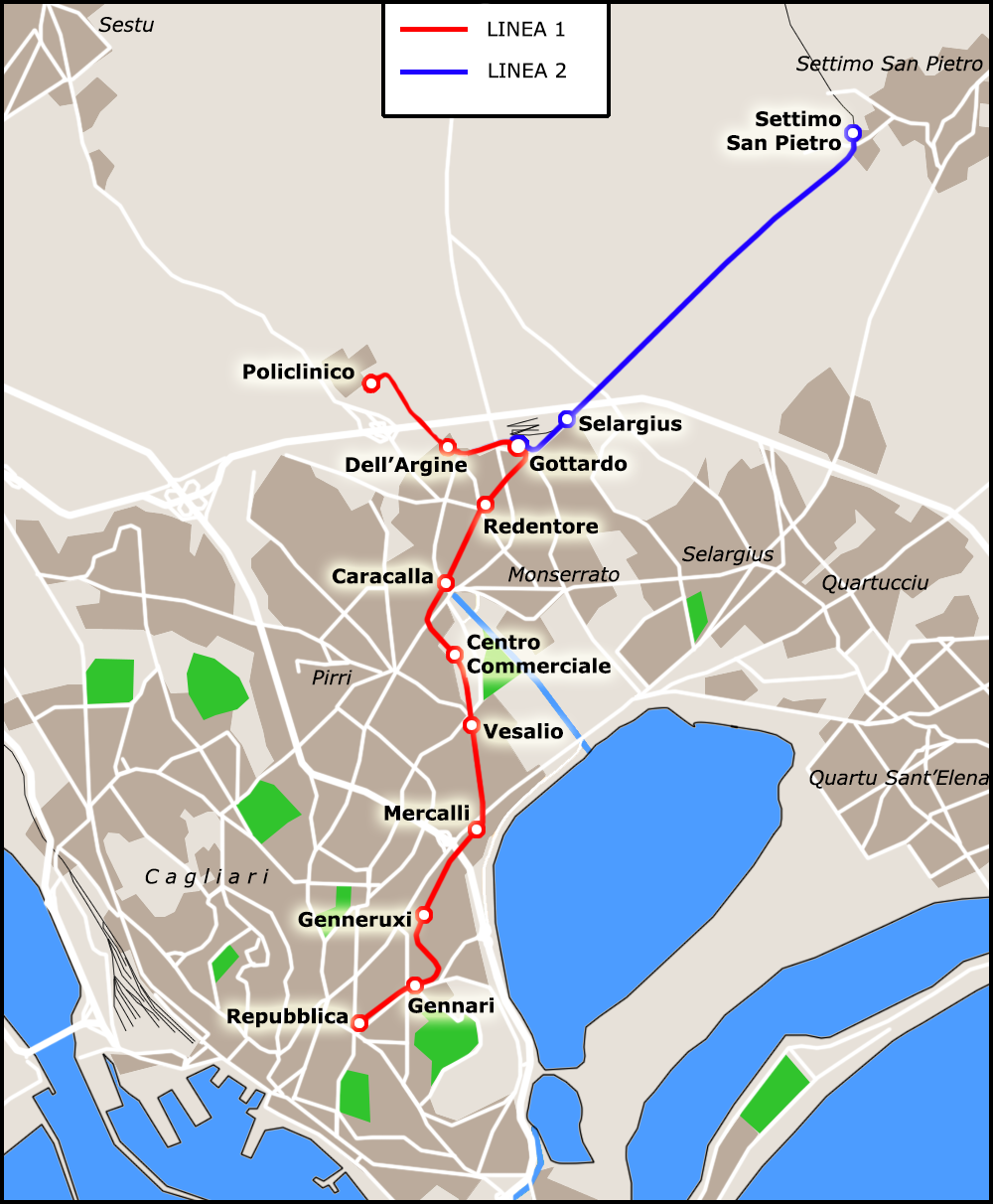 Map of Cagliari light rail - april 2015.